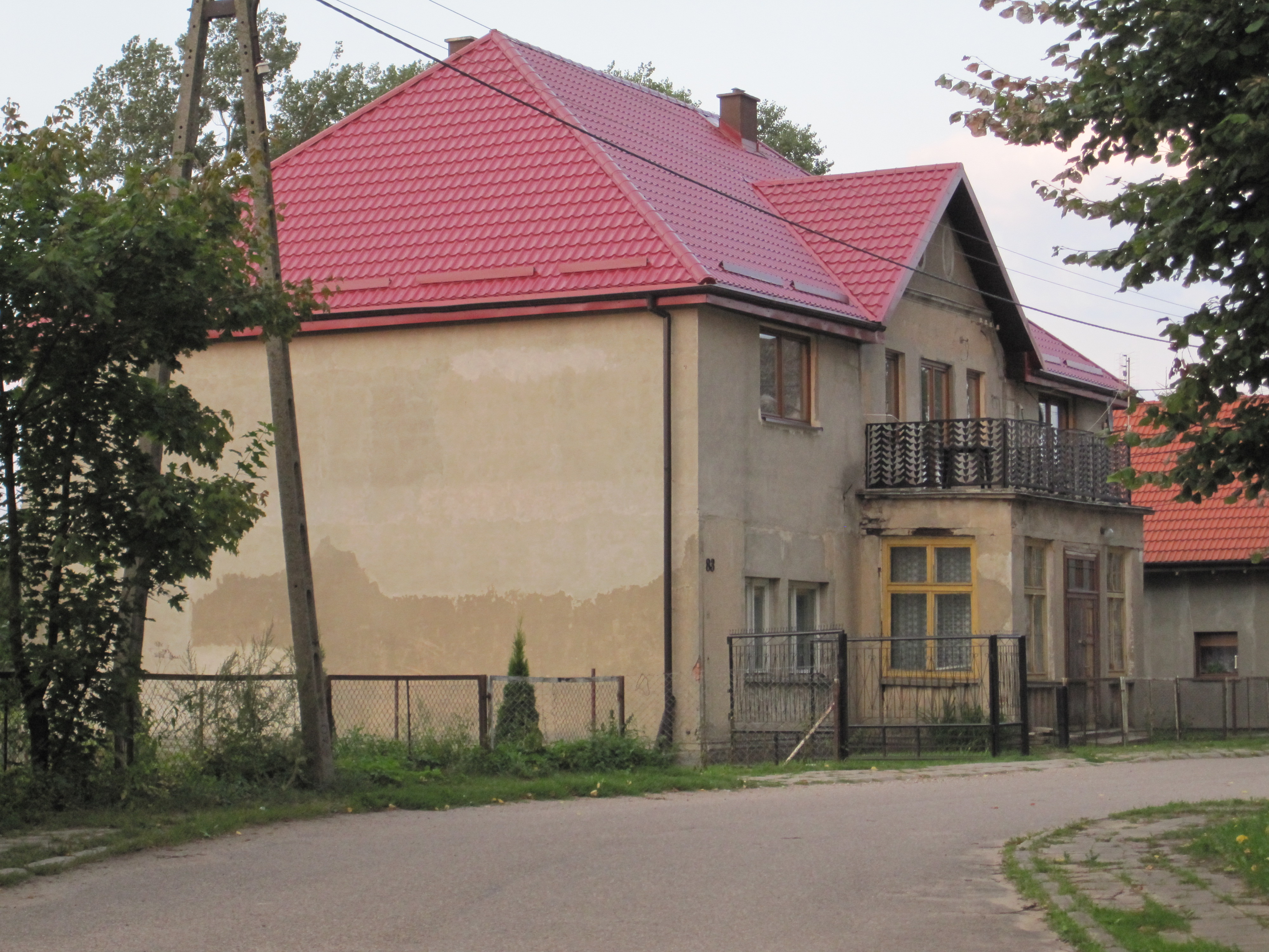 Building in Nawiady